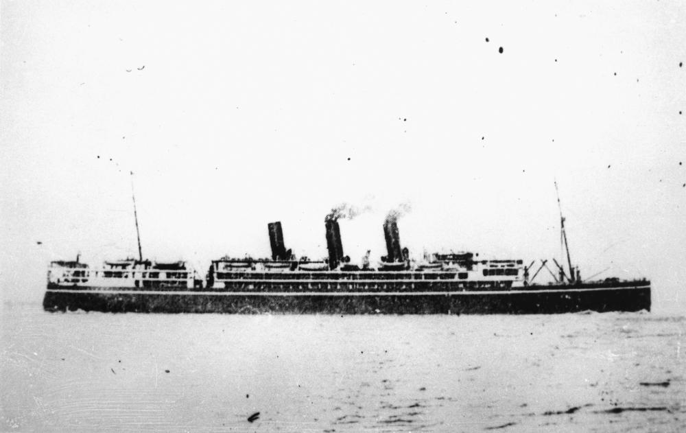 Naldera (ship) Built 1918, 15825 tons. (Description supplied with photograph.).